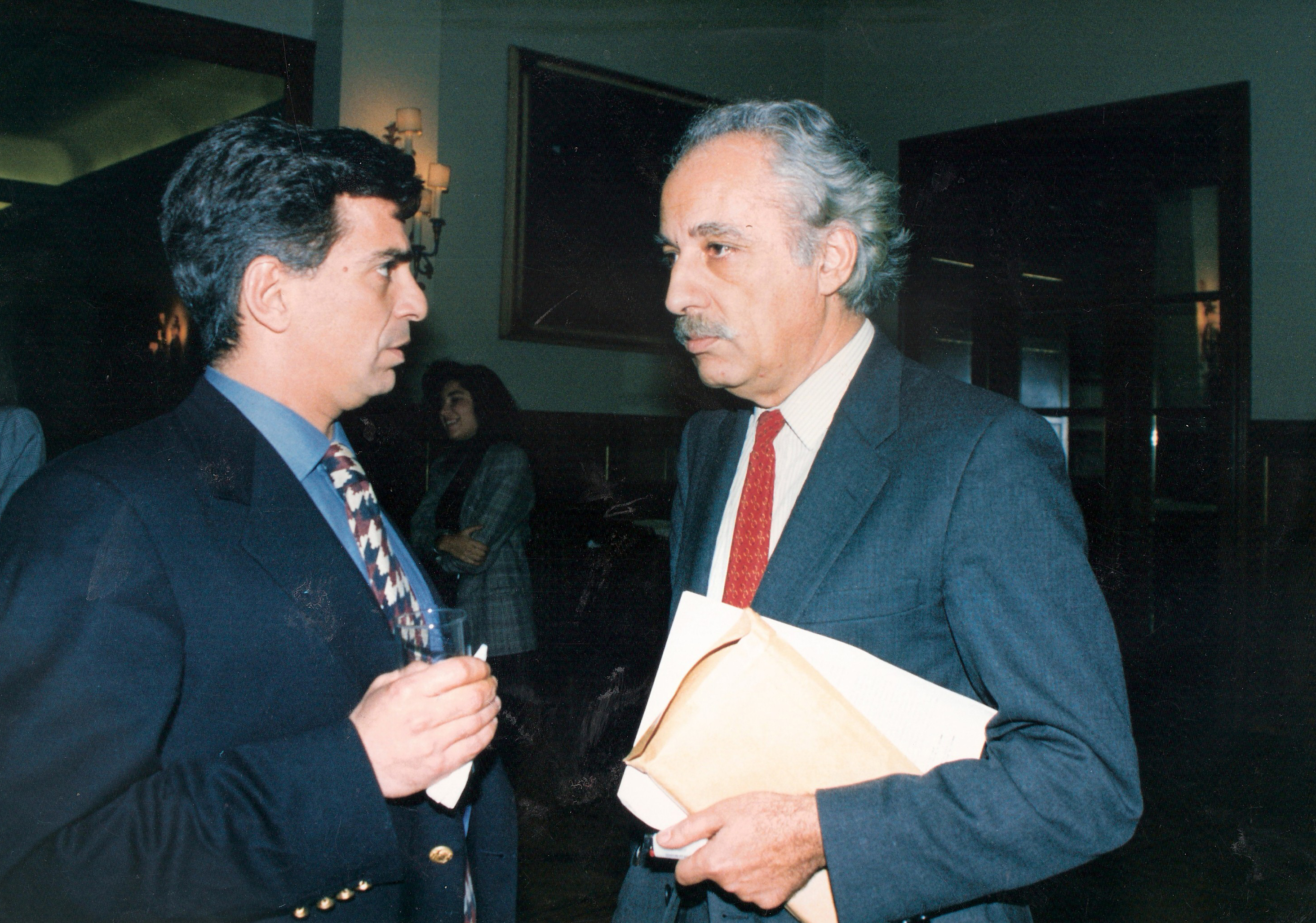 Aimilios Metaxopoulos with Tilemachos Chitiris. Date unknown.